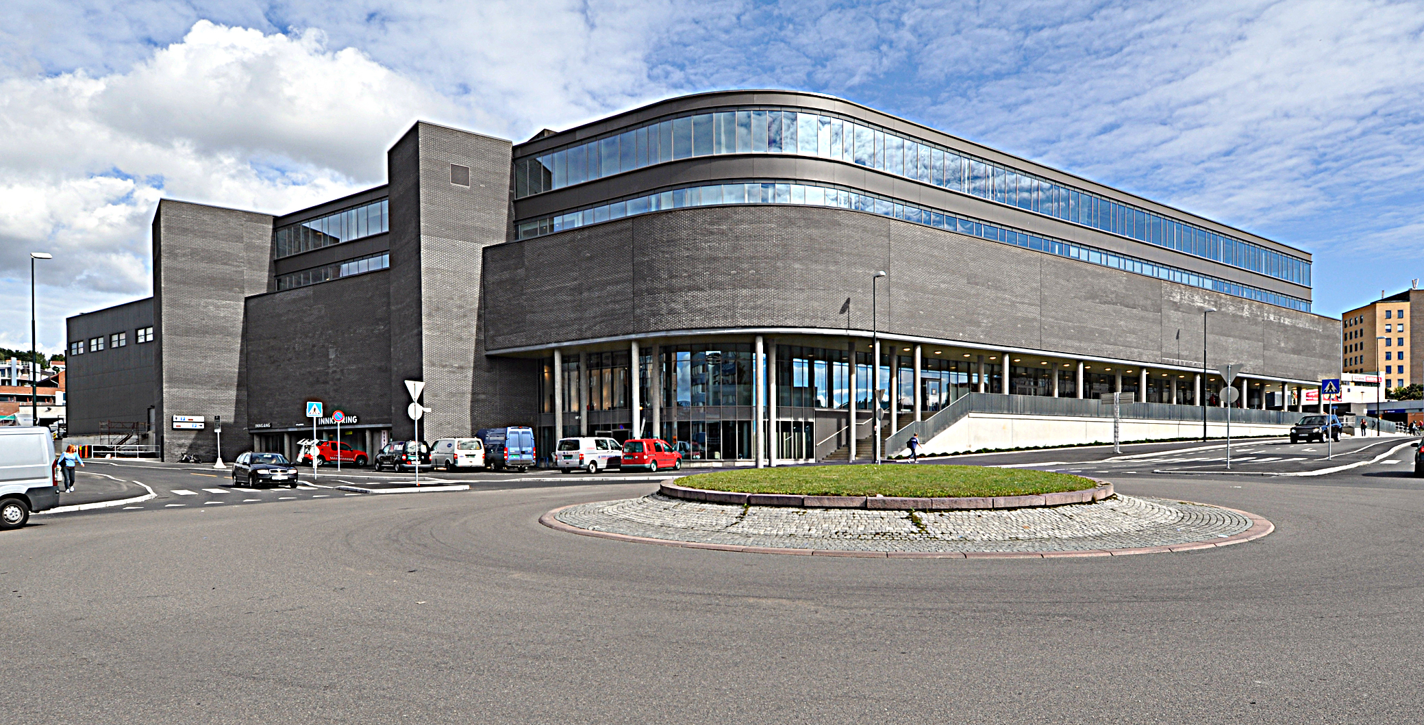 Storo Storsenter sett fra